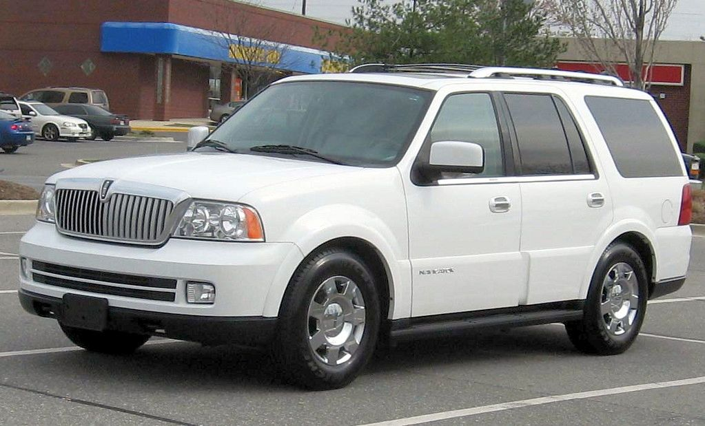 2005-2006 Lincoln Navigator photographed in USA.